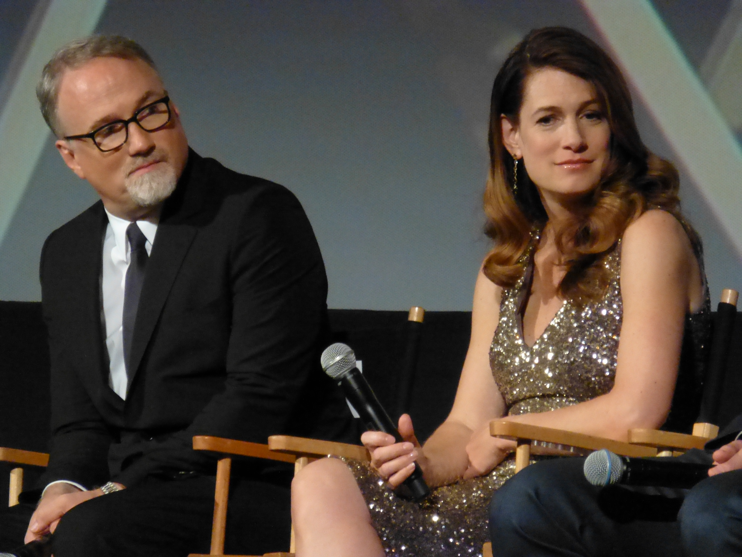 Gone Girl Premiere at the 52nd New York Film Festival, October 2014.